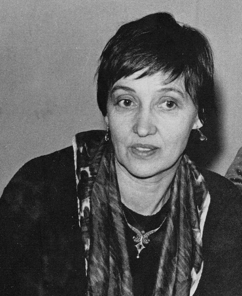 Photograph of the Finnish writer Elvi Sinervo (1912–1986).